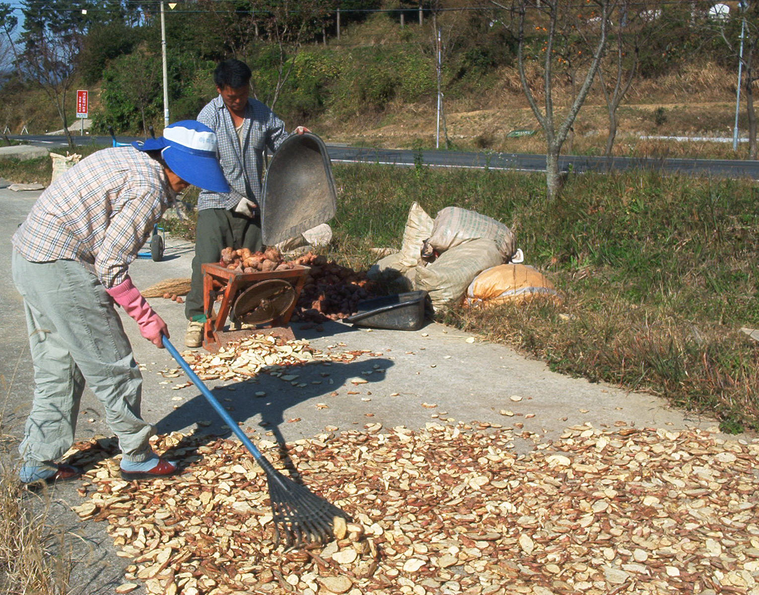 Sweet potatos where sliced for drying (Namhae, South Korea)